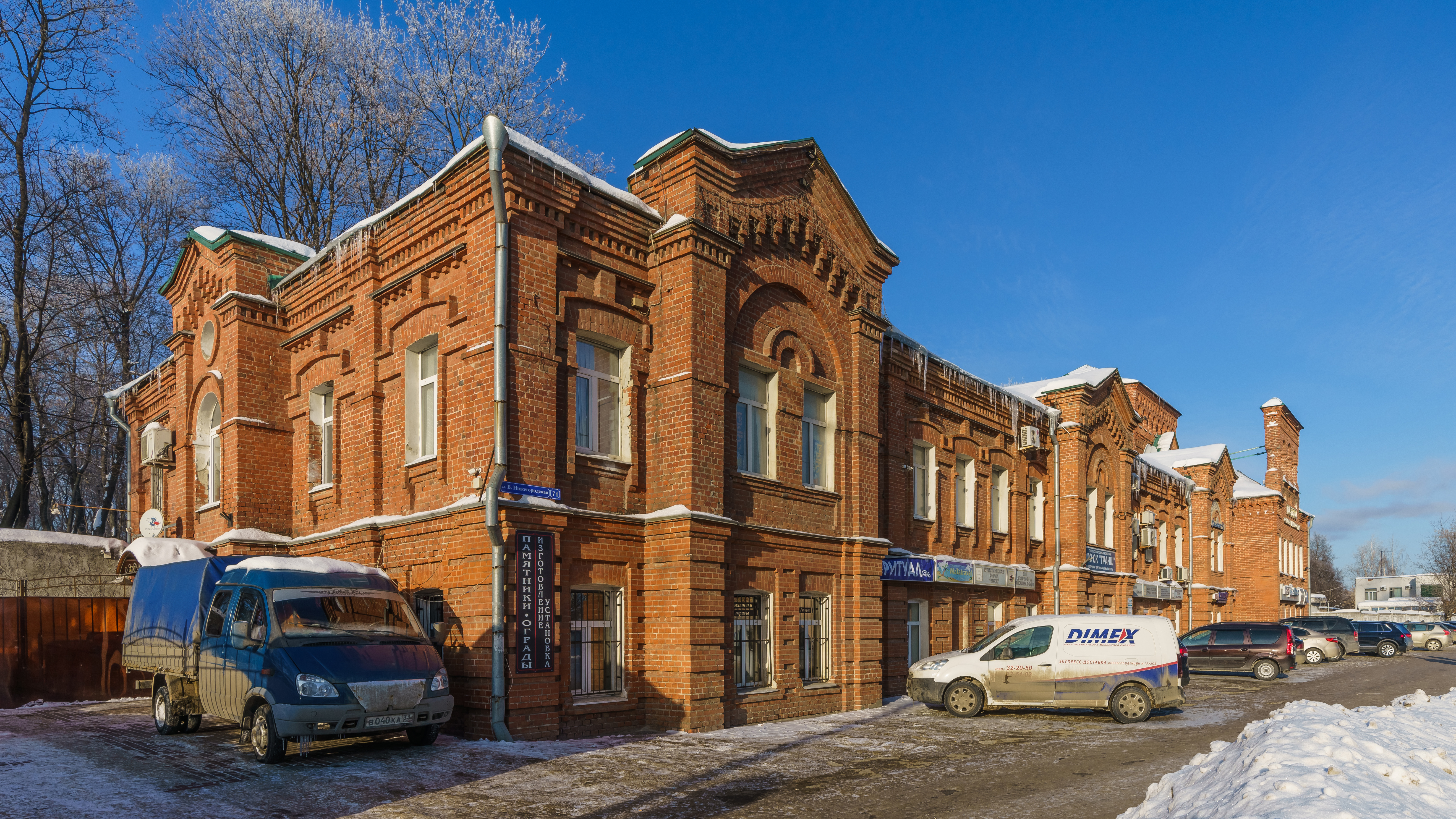 Building at Bolshaya Nizhegorodskaya Street 71 in Vladimir, Russia